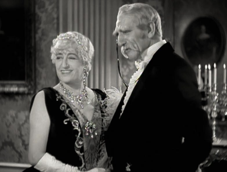 Constance Collier & C. Aubrey Smith in Little Lord Fauntleroy - cropped screenshot